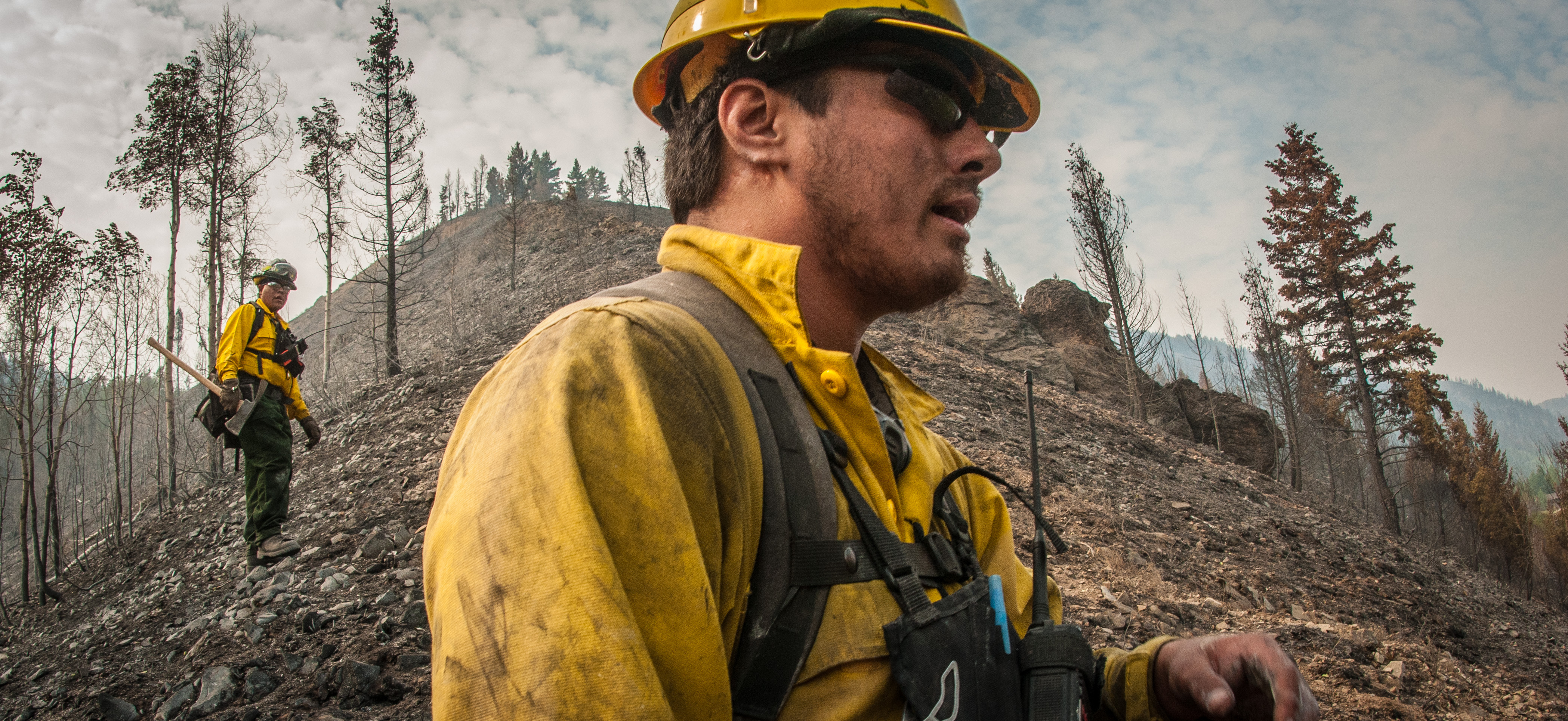 Department of the Interior, Indian Affairs (BIA) Southern Plains Initial Attack Type 2 Crew Squad Boss Trainee Bobby Robedeaux, of the Pawnee, Ponca and Otoe tribes, traverses a burned out hillside, looking and feeling for hotspots above and below the ground, during the Beaver Creek Fire, west of Hailey, ID, in the interface between U.S. Department of Agriculture (USDA) Forest Service (FS) and Sawtooth National Forest and Bureau of Land Management (BLM) lands, on Wednesday, Aug 21, 2013. USDA photo by Lance Cheung.